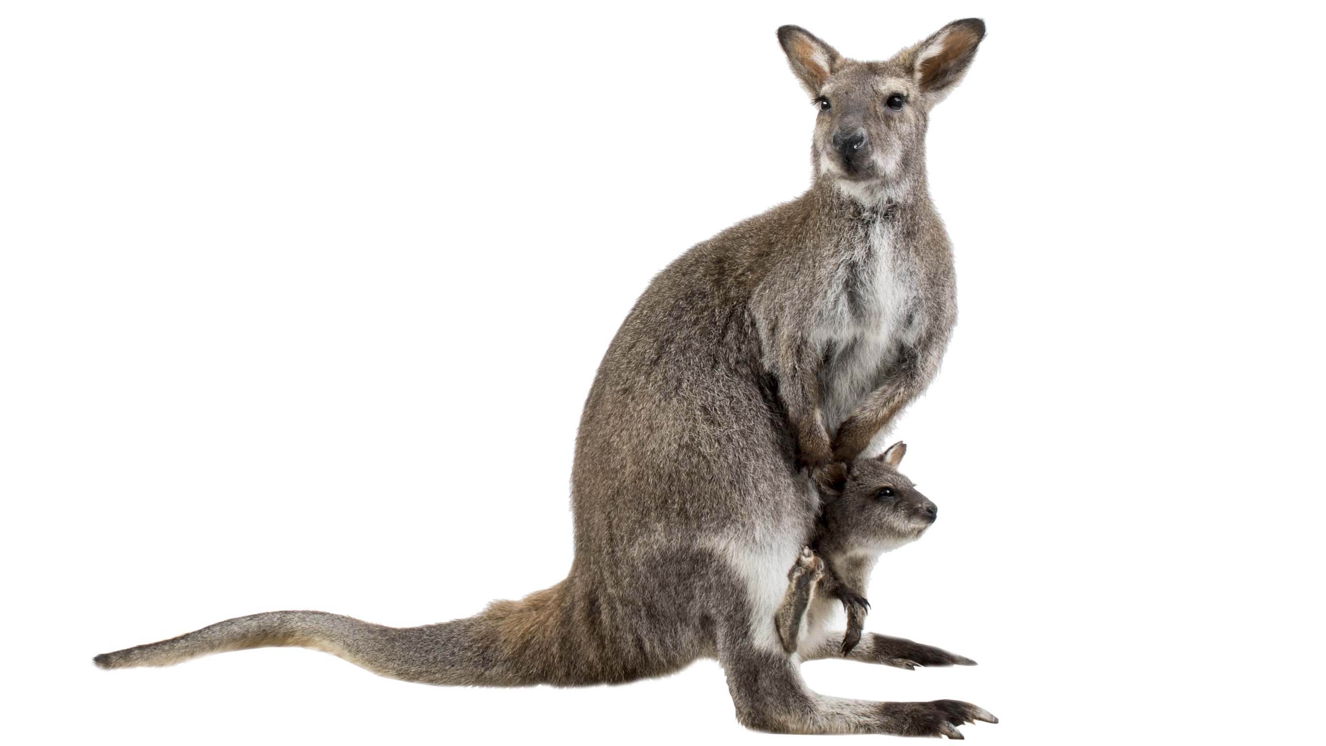 Red-necked wallaby, female with Joey in the pouch. Taxidermy.